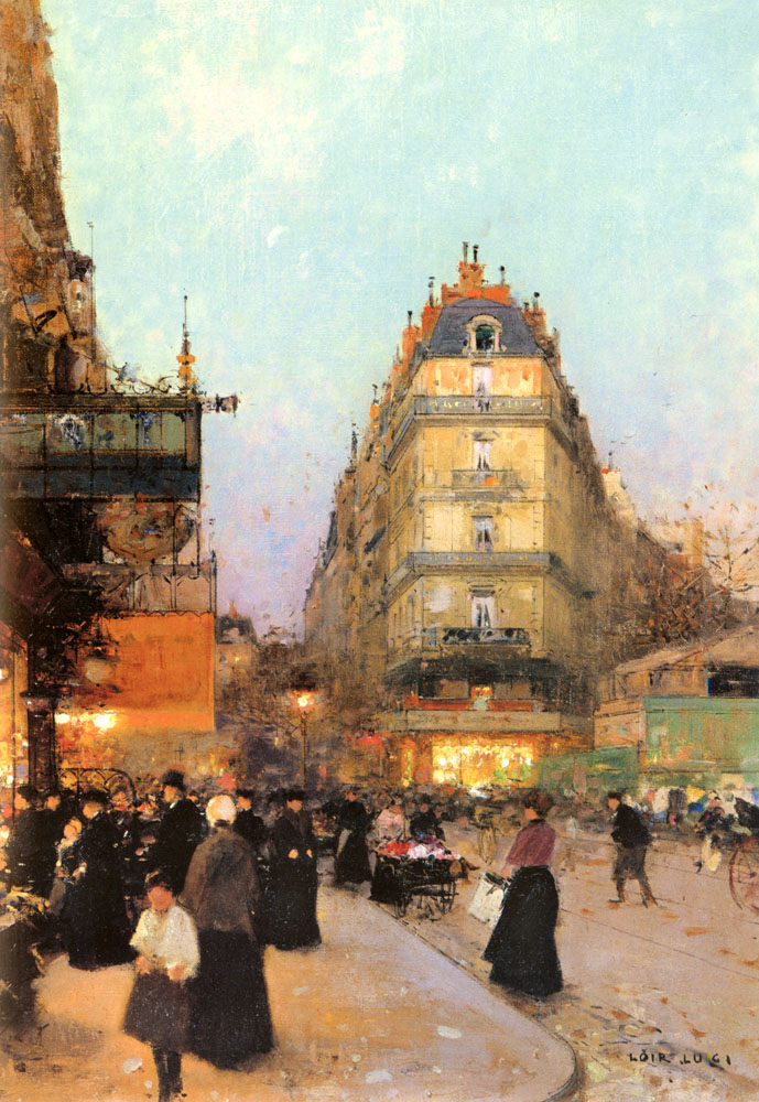 "Les Grands Boulevards" by French painter and engraver Luigi Loir (1845-1916). Oil on canvas.